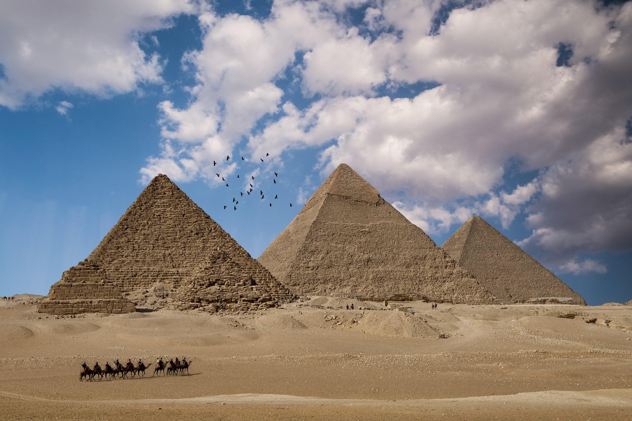 The Three pyramids of Giza